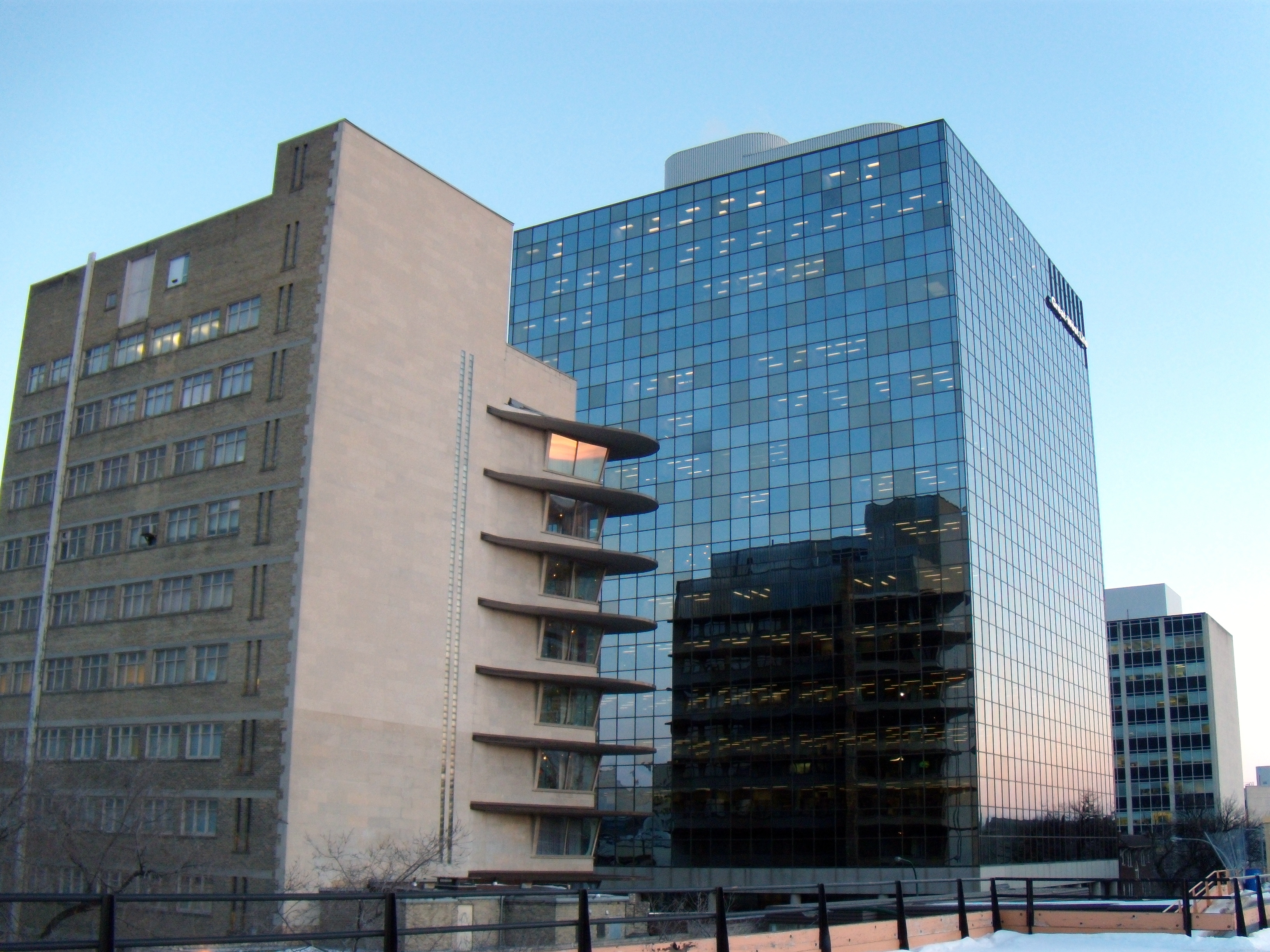 The Winnipeg Clinic building (425 St Mary) and the Great West Life building (444 St Mary) in Winnipeg, Manitoba